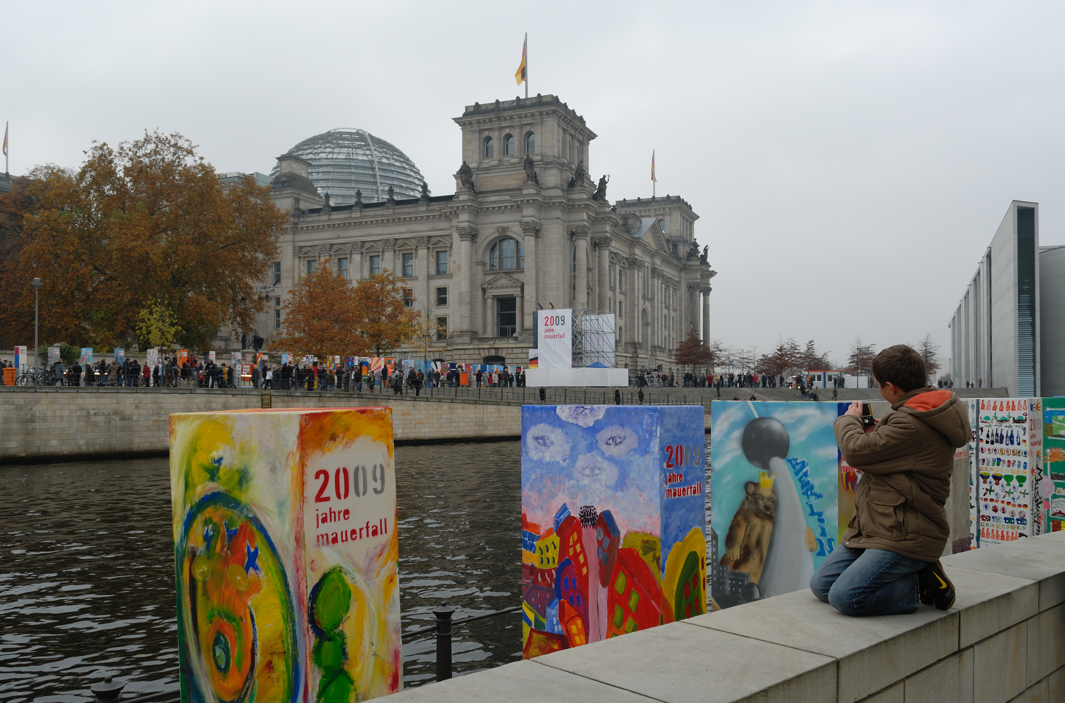 20th anniversary of the Fall of the Berlin Wall. Remembering the Wall 1000 "dominos" painted by volunteers were erected (Domino Action) which fell down again in a celebration on Nov. 9, 2009. – A boy takes a photograph of a domino with the Fernsehturm and the Berlin bear. Behind the Spree the domino line continues east of Reichstag passing Brandenburg Gate up to Potsdamer Platz.